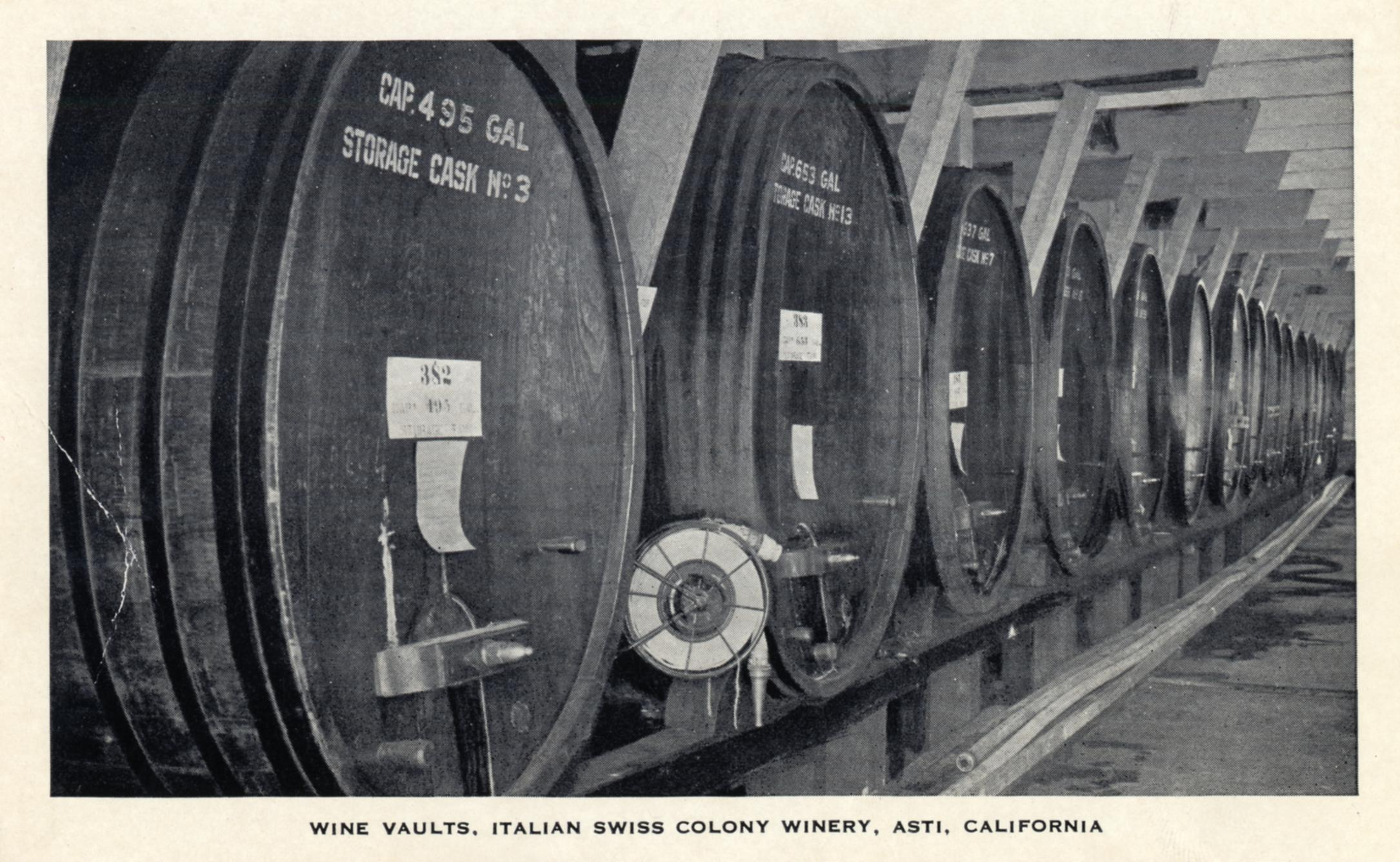 Image Description: Wine vaults, Italian Swiss Colony Vineyards, Asti, California. Original Collection: Food Science and Technology Dept. Photographic Collection Item Number: P142:566 You can find this image by searching for the item number by clicking here. Want more? You can find more digital resources online. We're happy for you to share this digital image within the spirit of The Commons; however, certain restrictions on high quality reproductions of the original physical version may apply. To read more about what “no known restrictions” means, please visit the Special Collections & Archives website, or contact staff at the OSU Special Collections & Archives Research Center for details.